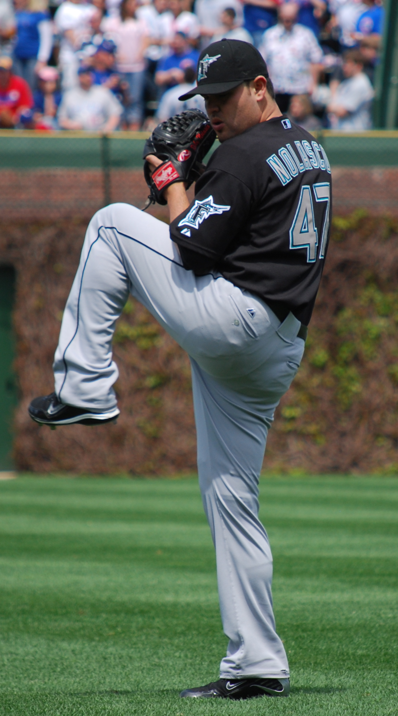 Description Ricky Nolasco DateSourceI created this work entirely by myself.AuthorScottRAnselmo (talk) 02:14, 4 May 2009 . . ScottRAnselmo . . 1,368×2,463 (965 KB) Ricky Nolasco